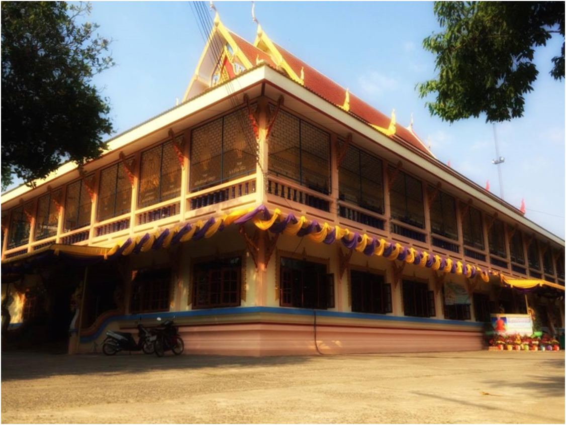 Wat Taitarad